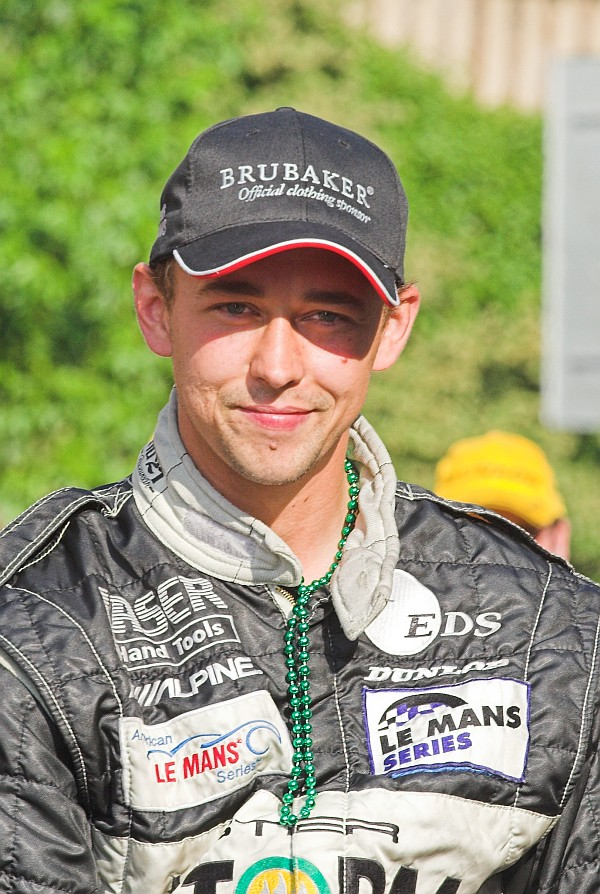 Nicolas Kiesa photographed at Le Mans 2006 drivers parade.